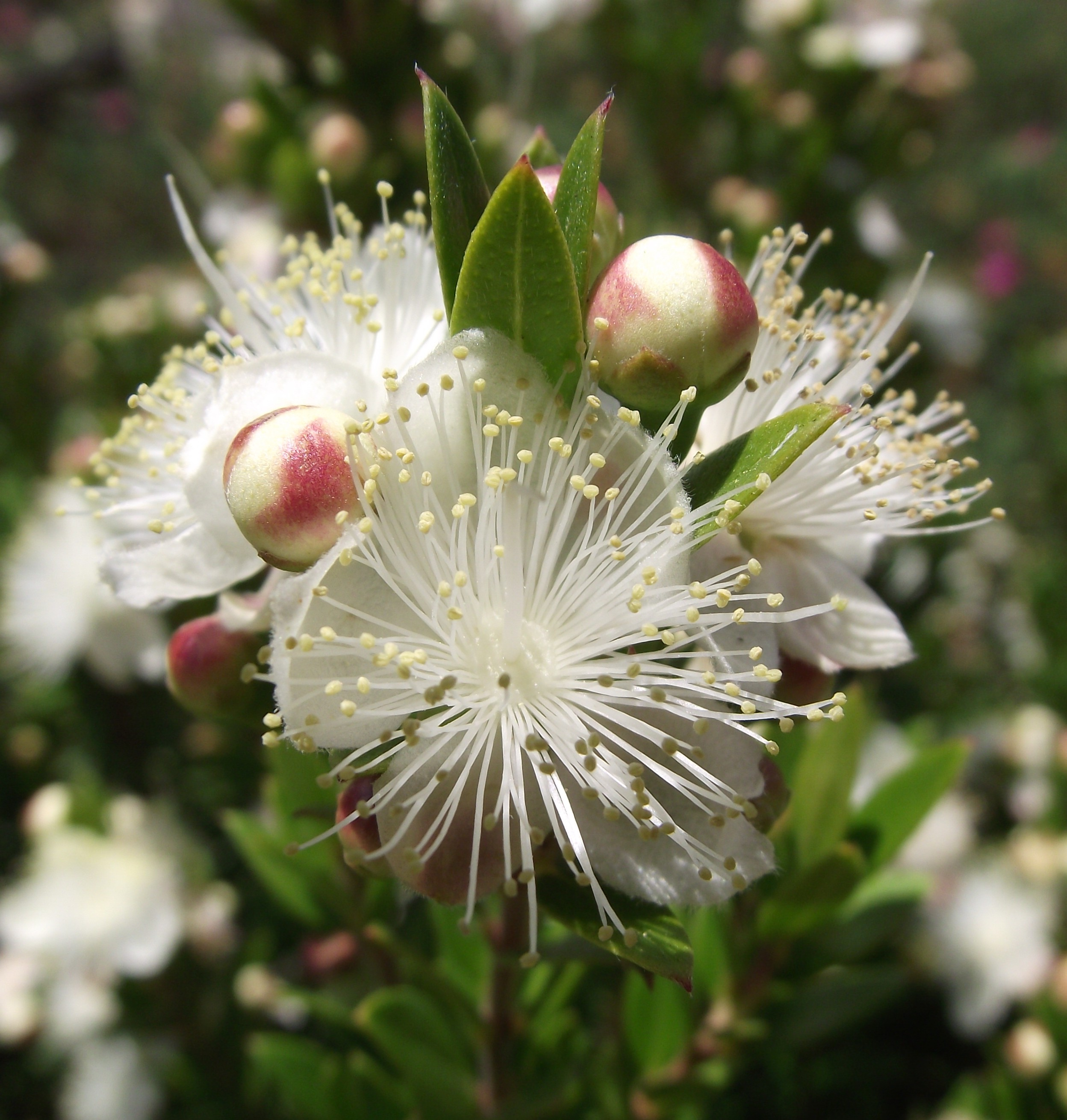 Myrtus communis 'Compacta' in the Water Conservation Garden at Cuyamaca College, El Cajon, California, USA. Identified by sign.